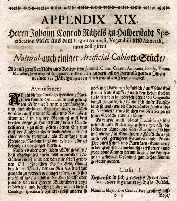 Catalogue of Johann Konrad Rätzel's (1672-1754) rarities collected during his twelve years stay in East India. Printed for the first time by Prof. Michael Bernhard Valentini in 1714: Herrn Johann Conrad Rätzels zu Halberstadt Specification vieler aus dem Regno Animali, vegetabili und Minerali, raren colligirten Natural- auch einiger Artificial-Cabinet=Stücke/ Alle mit grosser Mühe und Kosten von Japonia, China, Ceram, Amboina, Banda, Tirmor, Macassar, Java majore & minore, und vielen andern allda herumliegenden Inseln in einer 12. Jährigen Zeit in Asien mit allem Fleiß colligiret.